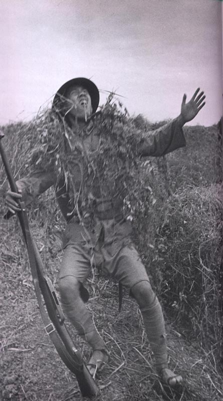 Zhu Haiwen was a soldier who had been in the NRA for only half a year. In 1939 he was wounded in the stomach in a skirmish with a small Japanese recon unit.